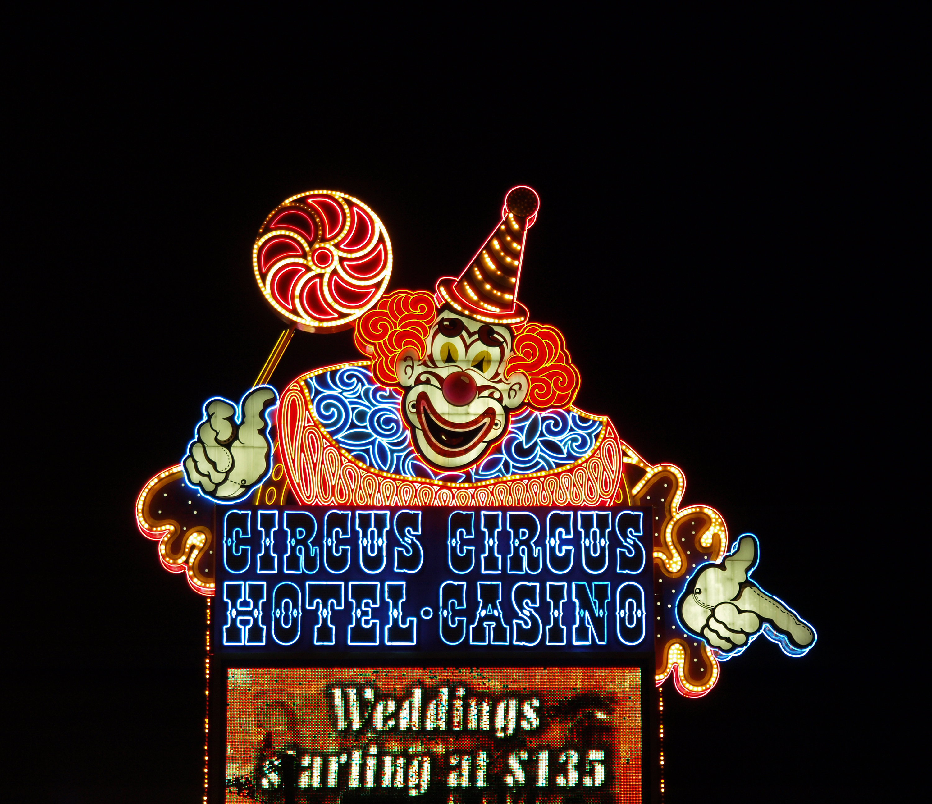 Circus Circus, hotel and casino located on Las Vegas (Nevada, United States)